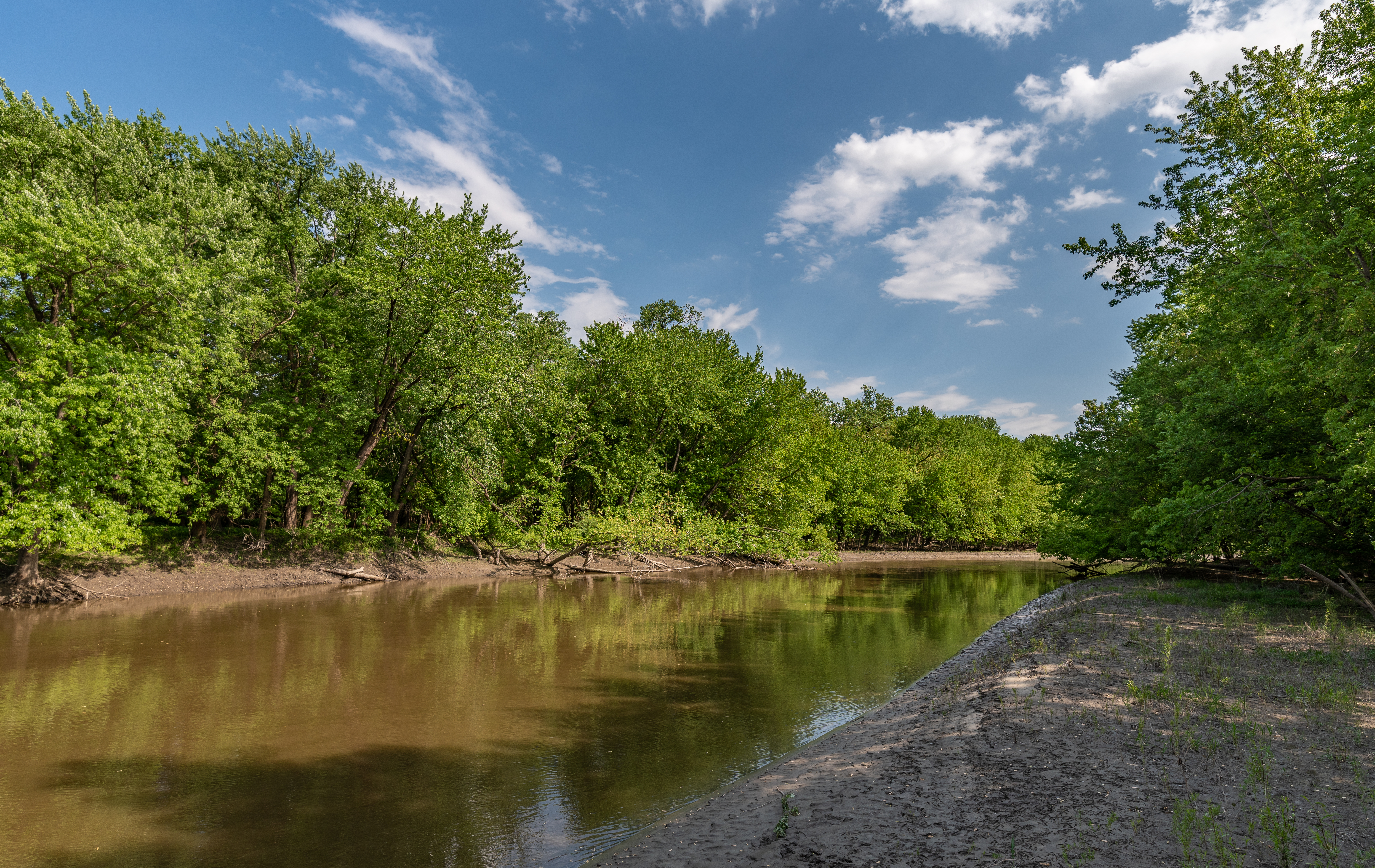 The Minnesota River on its way to meet the Mississippi River, as seen from the Minnesota Valley State Trail bridge to Wita Tanka (Pike Island), at Fort Snelling State Park, Minneapolis-St. Paul, Minnesota. Pictured on the left is Wita Tanka (PIke Island). - (c) 2018 Tony Webster +1 202-930-9200